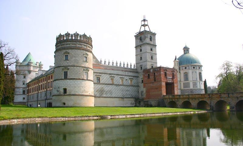 Krasicki Castle in Krasiczyn (Poland) before renovation.